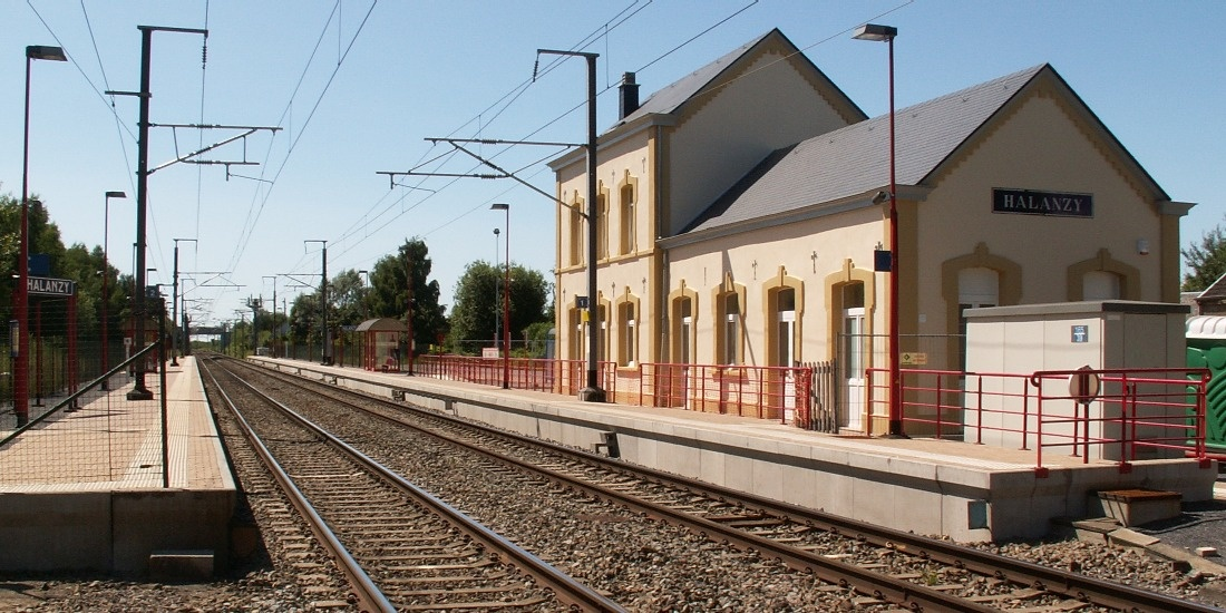 The station of Halanzy, on the Belgian Railway line 165, as seen after a full facelift in 2009. Trains have not stopped there between 1984 and 2007. Station is reopened based on local lobbying for better public transport link with the nearby Luxembourgish labour area.